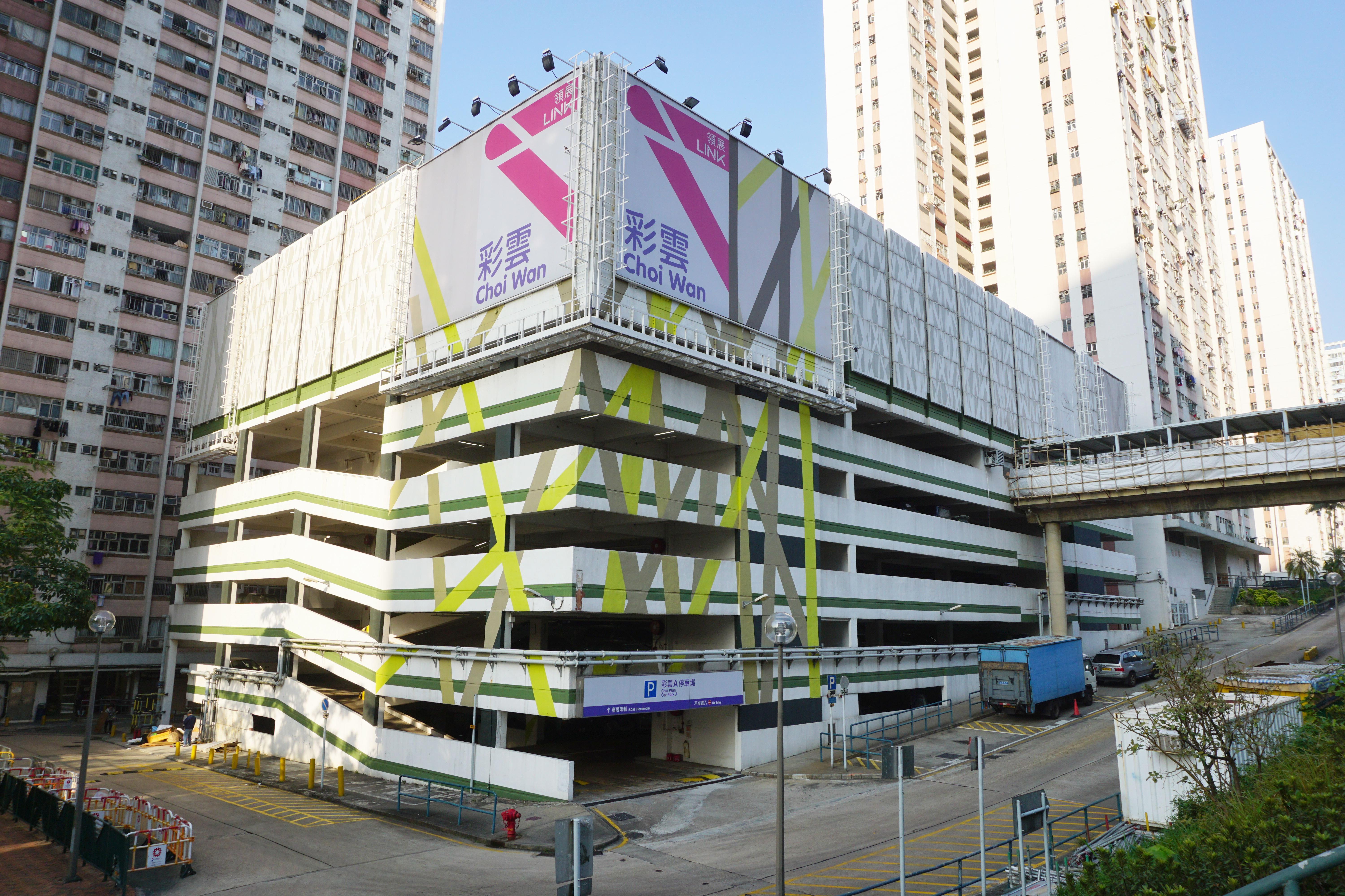 Choi Wan Estate in Ngau Chi Wan, Hong Kong.